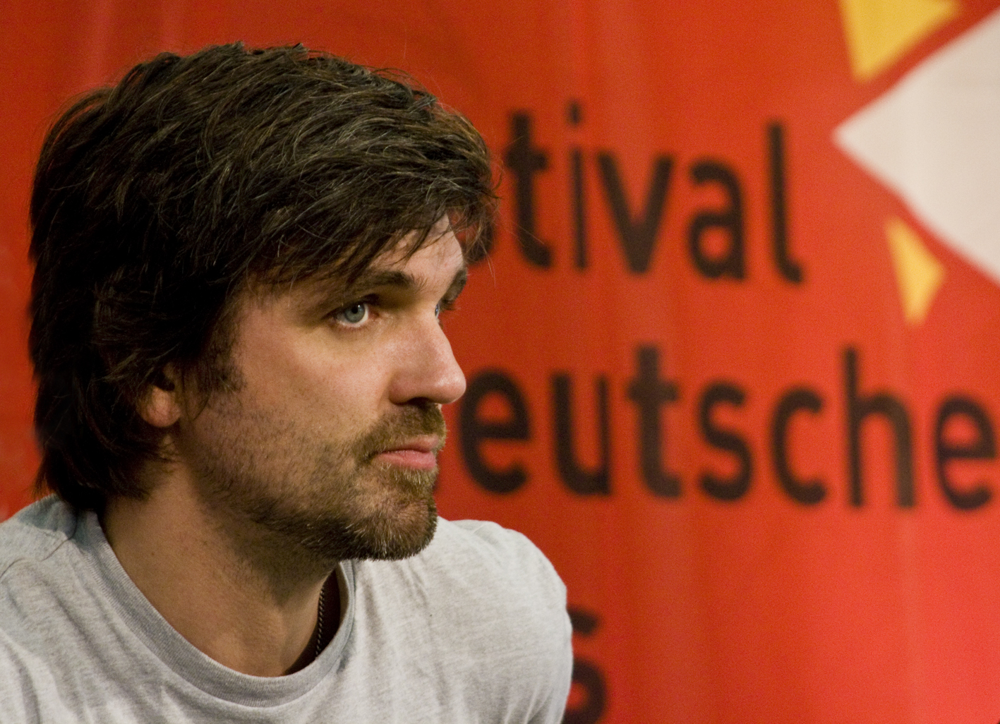 German movie director Sebastian Schipper at the Festival of German Movie (Festival des deutschen Films).